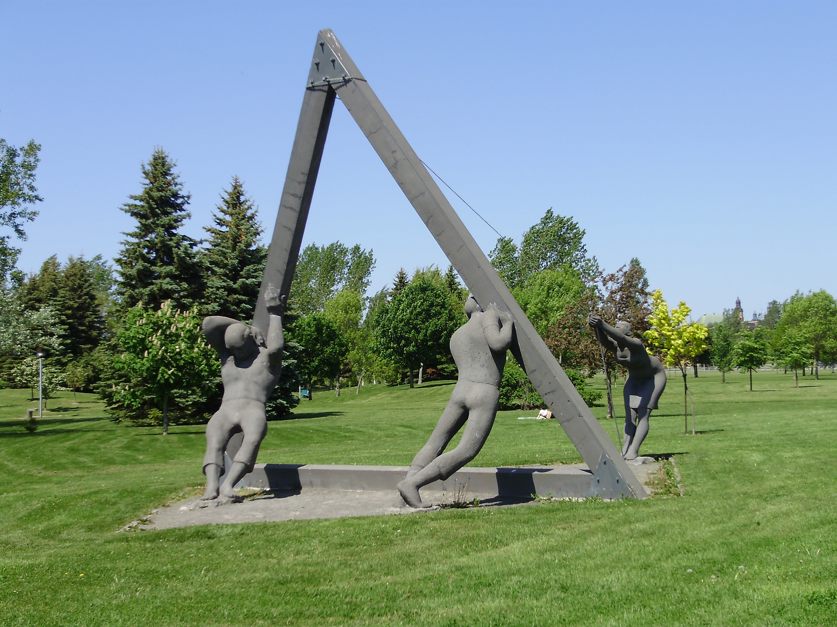 Les bâtisseurs by Roger Langevin (Sculptor) 2010-07-15